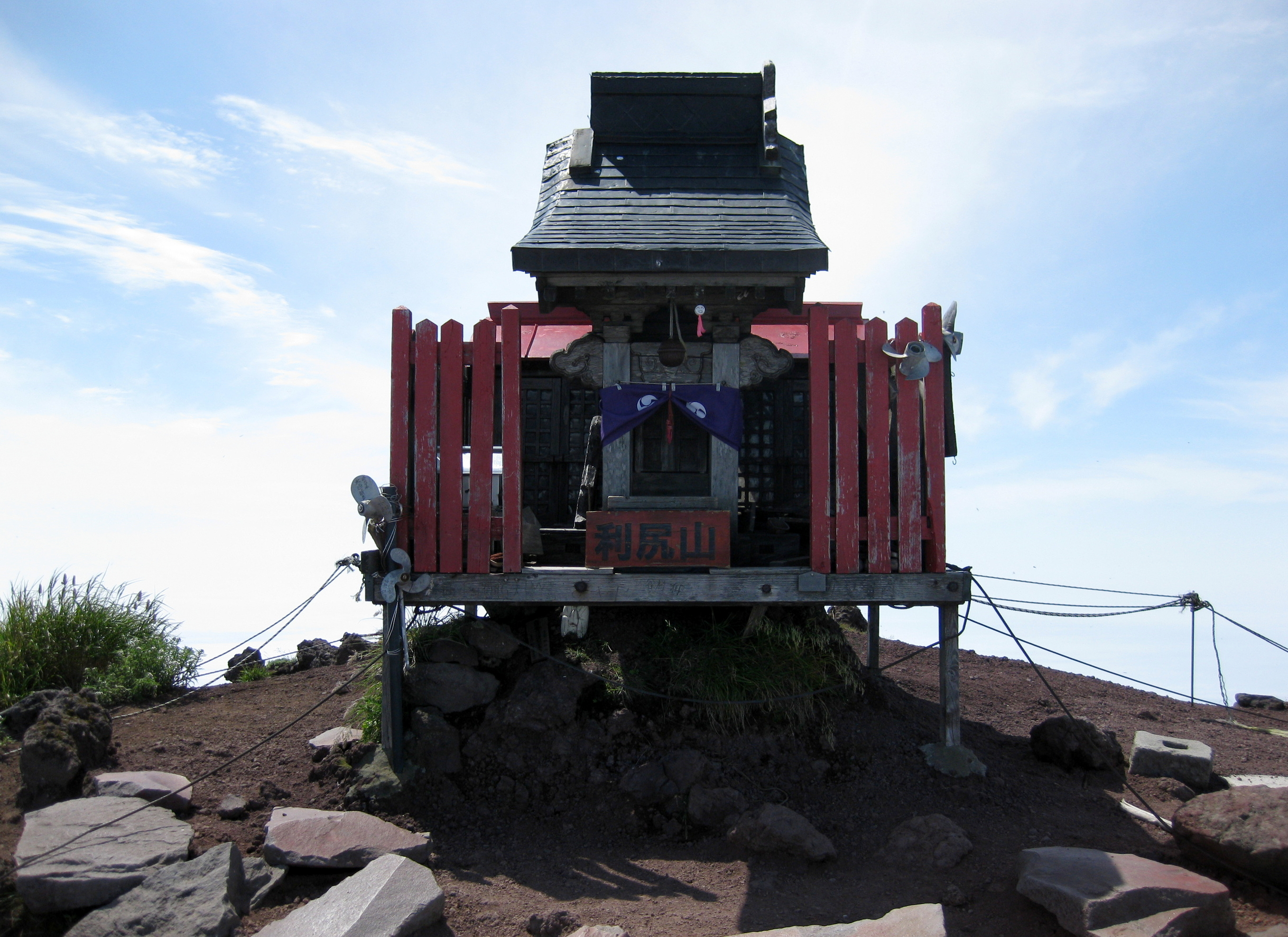 Shrine at summit of Mt. Rishiri, Rishiri Island, Hokkaido, Japan